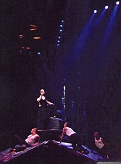 Madonna performing the Spanish version of "What it Feels Like For a Girl" titled "Lo Que Siente La Mujer" on the Drowned World Tour